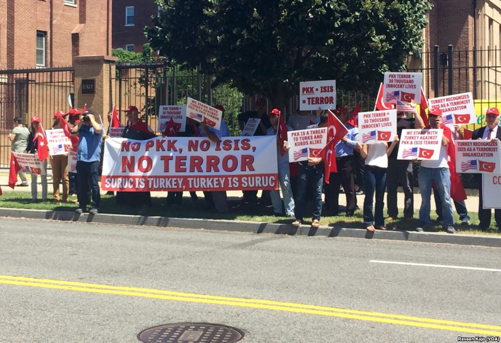 Turkish people protest Islamic State of Iraq and the Levant (ISIL) and Kurdistan Worker's Party (PKK) after Suruc bombing in front of the Turkish Embassy in Washington D.C., United States.